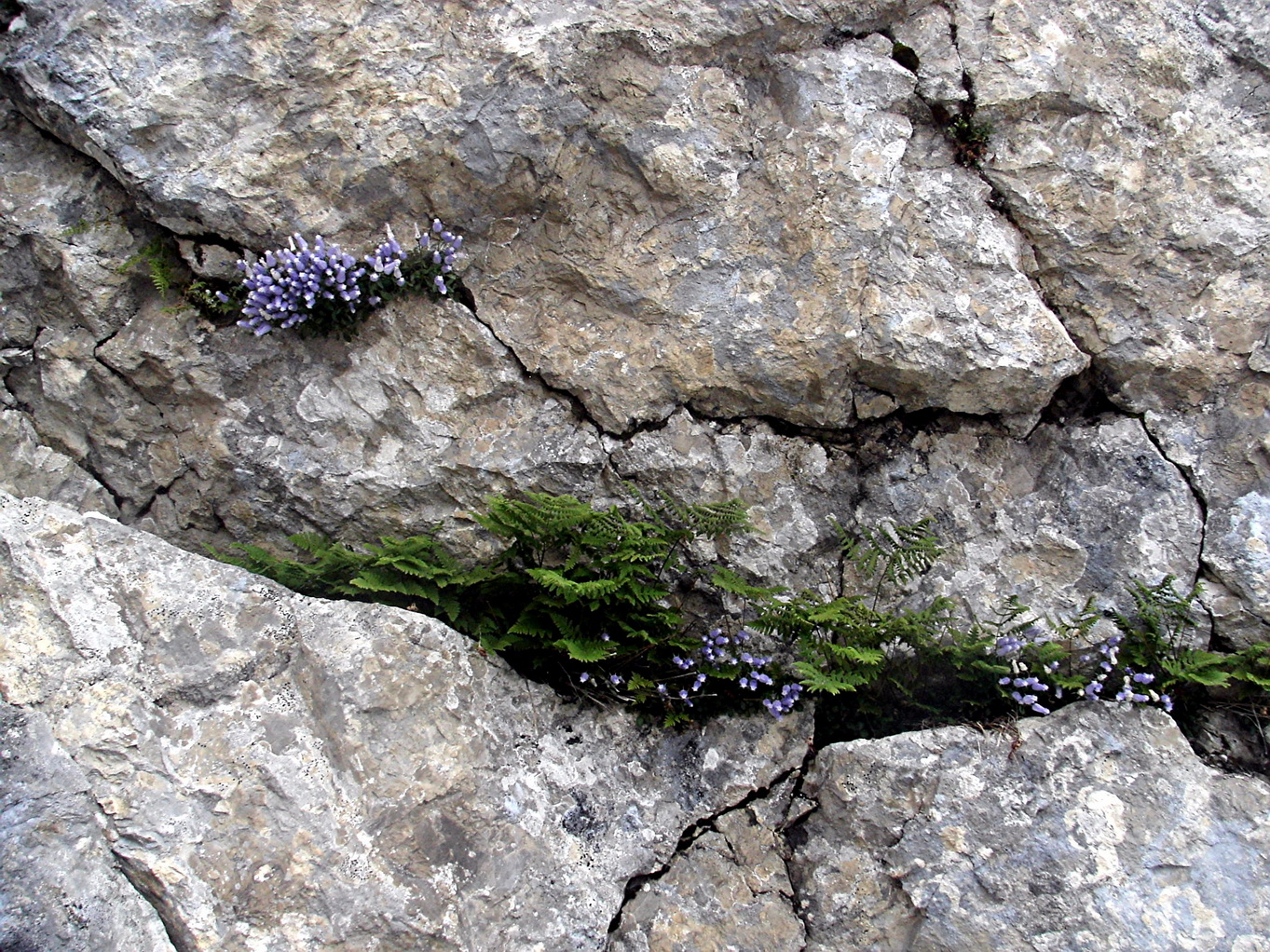 Campanula zoysii, Triglav mountains, Slovenia